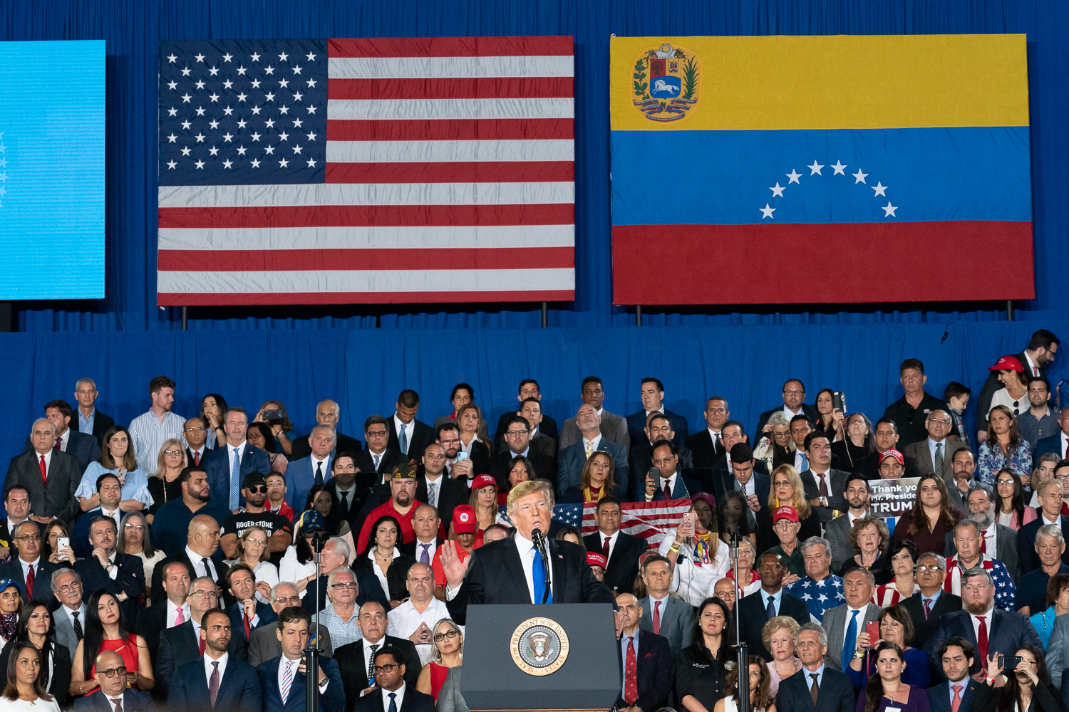 President Donald J. Trump delivers remarks to the Venezuelan American community at the Florida International University Ocean Bank Convocation Center Monday, Feb. 18, 2019 in Miami, Fla. (Official White House Photo by Andrea Hanks)